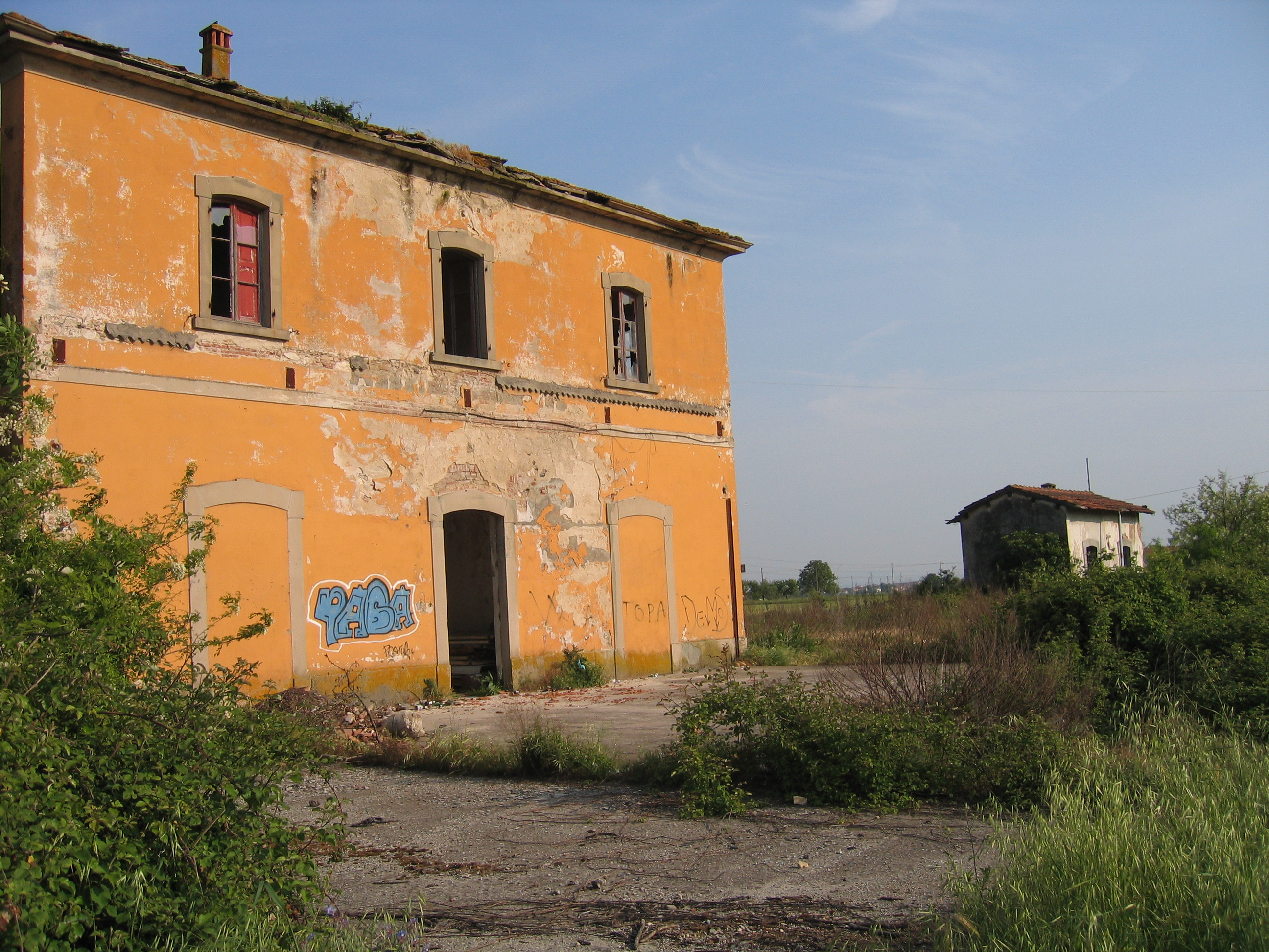 Vicopisano-Bientina - Station buildings (19+619)